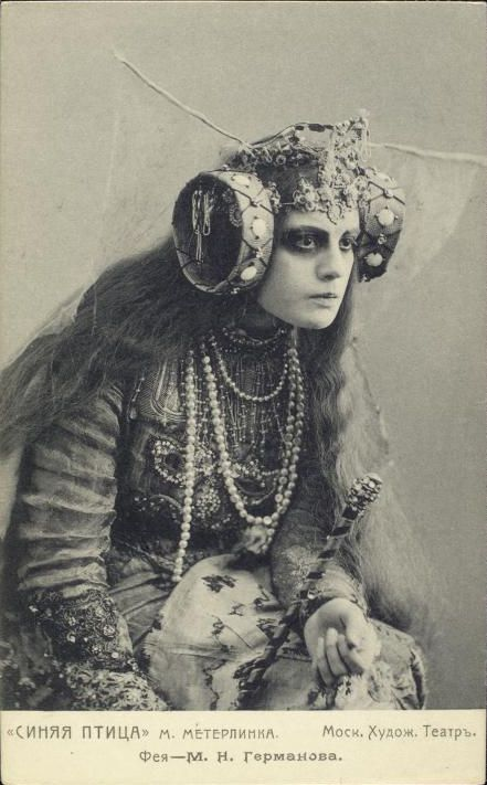 Germanova as Witch in The Blue Bird (Maurice Maeterlinck) of Moscow Art Theatre (1908).